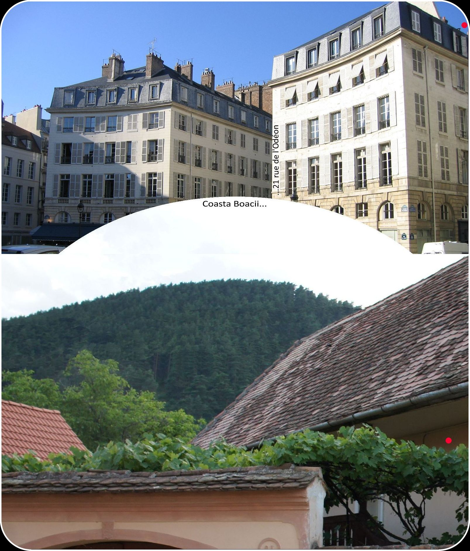 see also wikimedia "Place de l'Odéon Paris.jpg" by autor Thesupermat